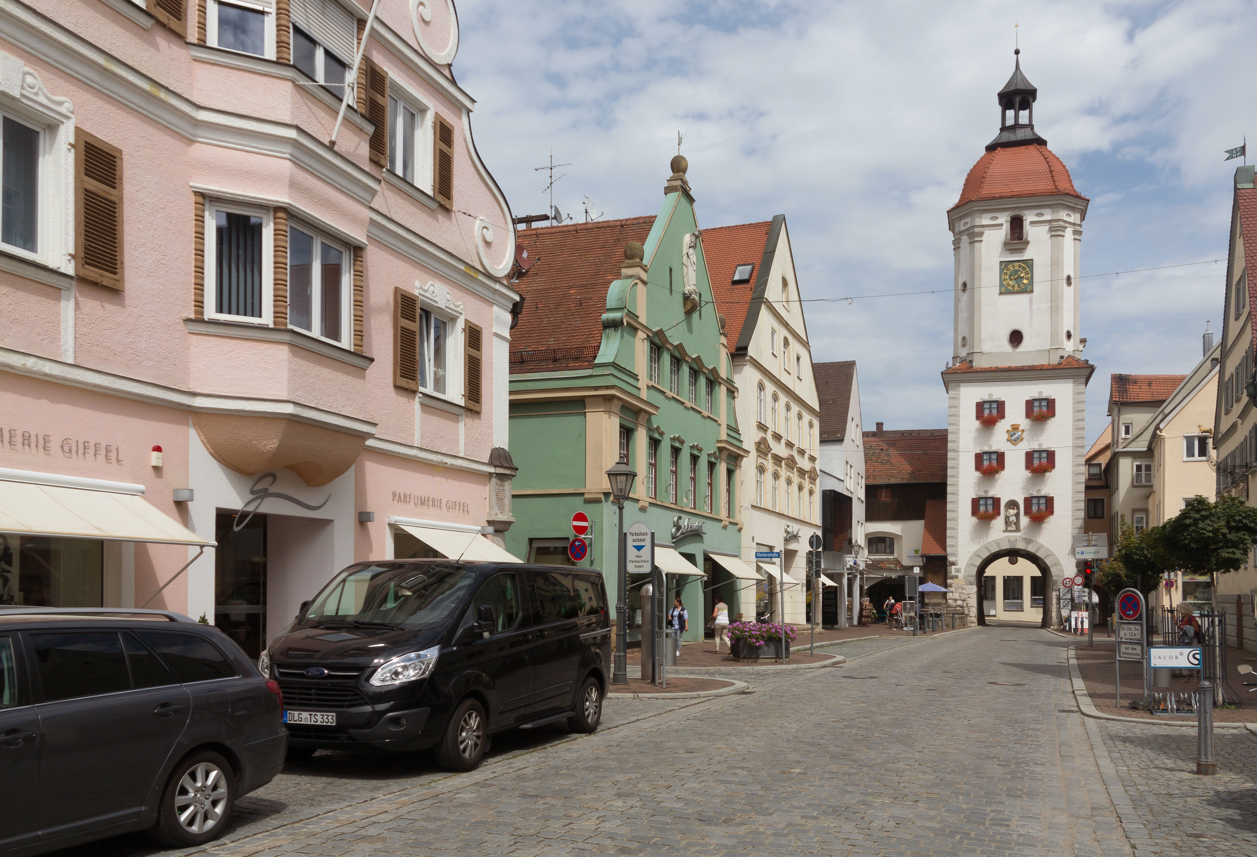 Dillingen an der Donau, towngate: der MitteltorThis is a photograph of an architectural monument.